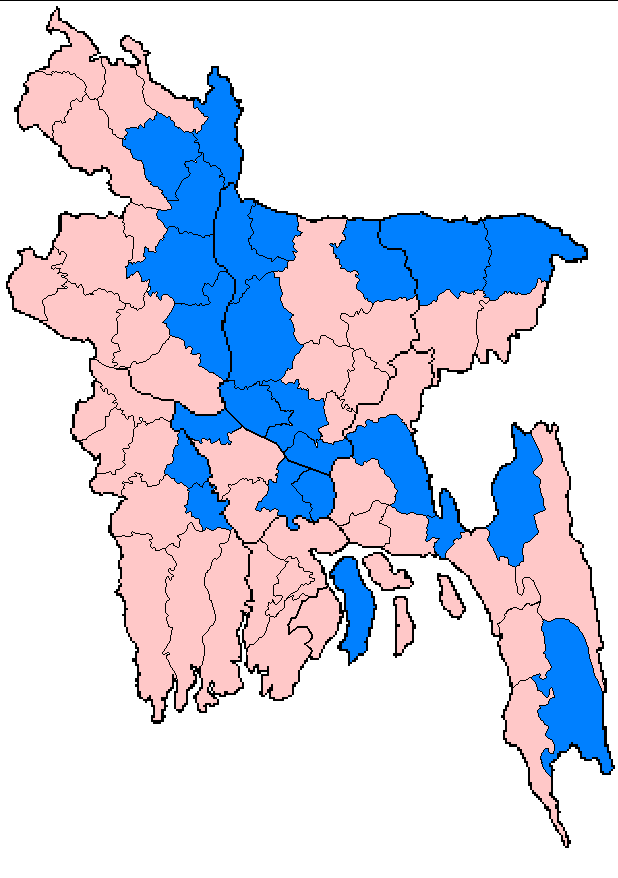 Bangladesh districts flood hit between July 3 and August 15 2007. Used Image:Bangladesh districts.png by User:Rarelibra as a template, which also has a PD license as of 2007-09-08. Citations for each affected district can be found here.